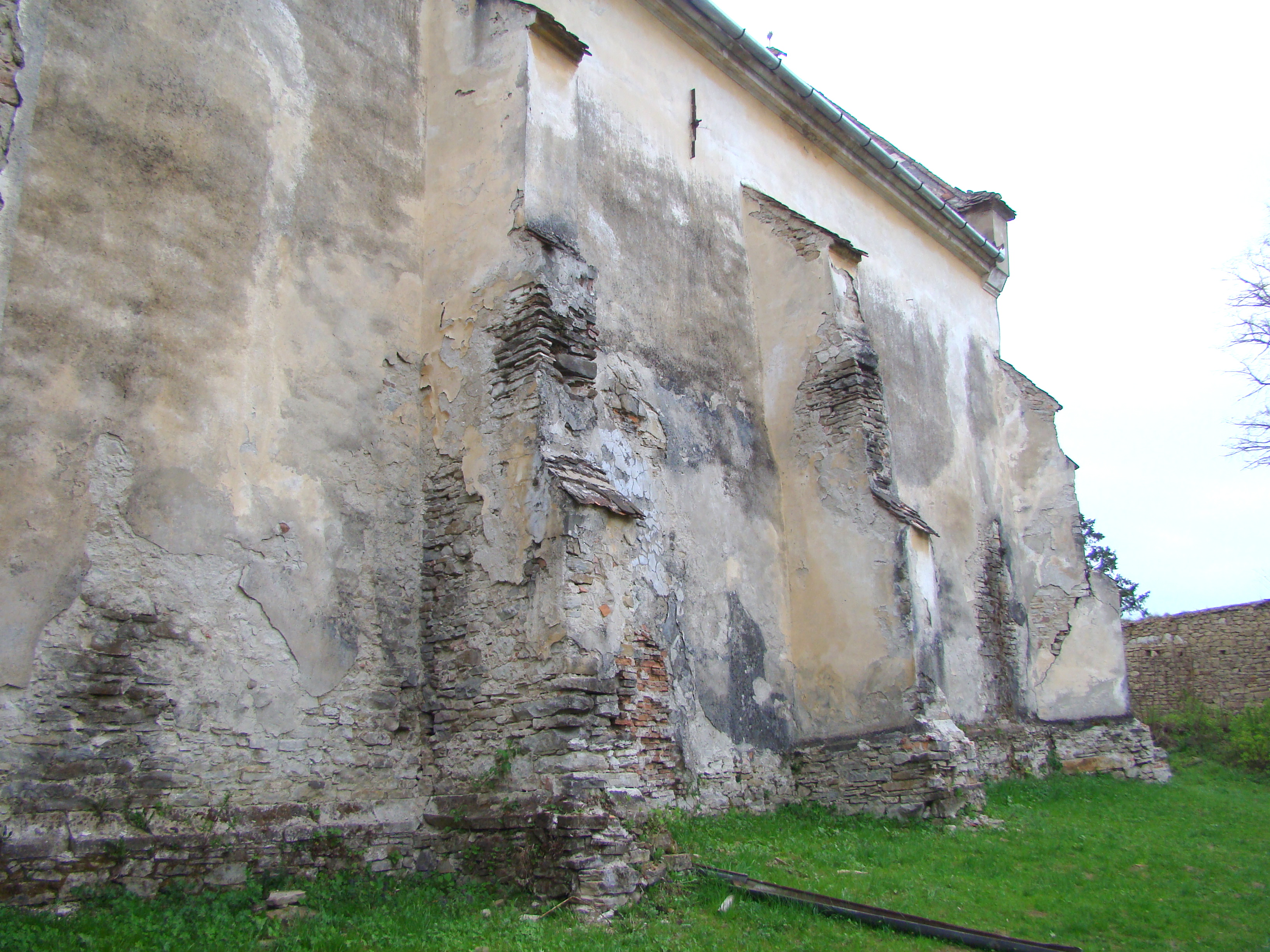 Lutheran church in Daia, Mureș county, Romania